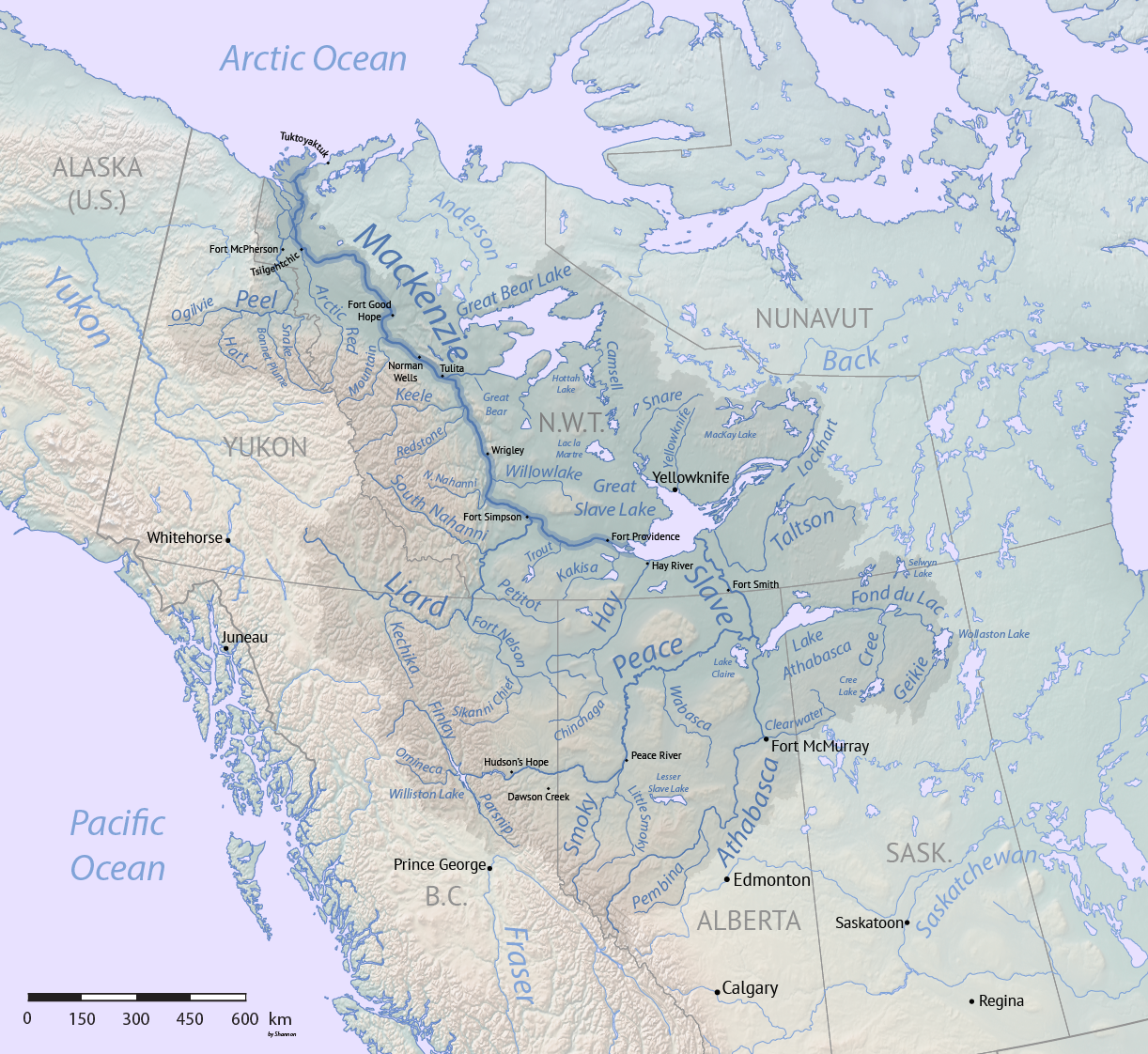 Map of the Mackenzie River system in Canada-occupied territory, made using public domain Natural Earth and Atlas of Canada data.